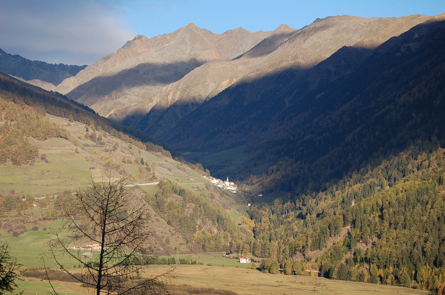 Planeil in Upper Vinschgau, as seen from Burgeis (west)